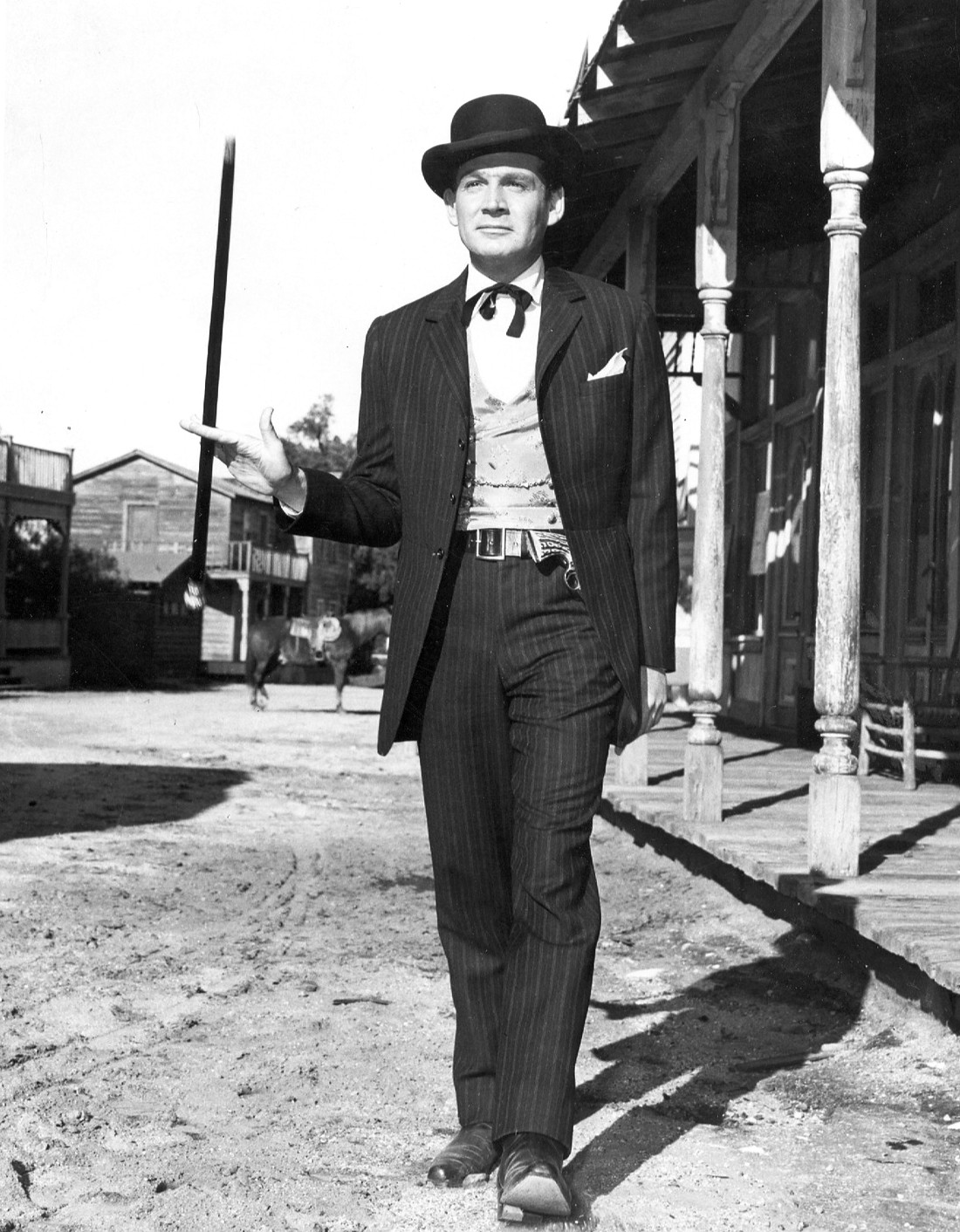 Photo of Gene Barry as Bat Masterson from the program premiere.